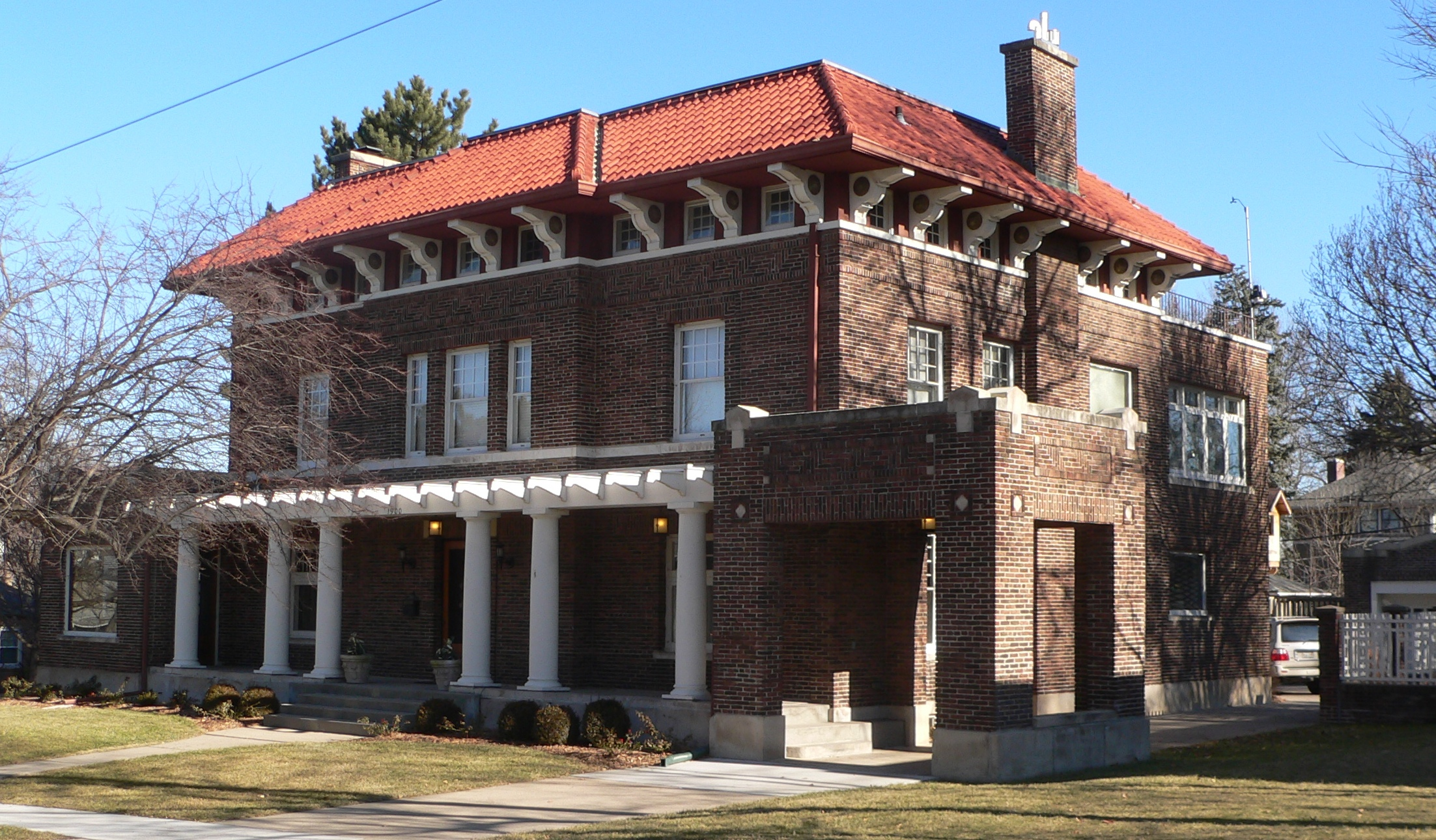 John H. and Christina Yost house, located at 1900 S. 25th Street in Lincoln, Nebraska; seen from the southwest.